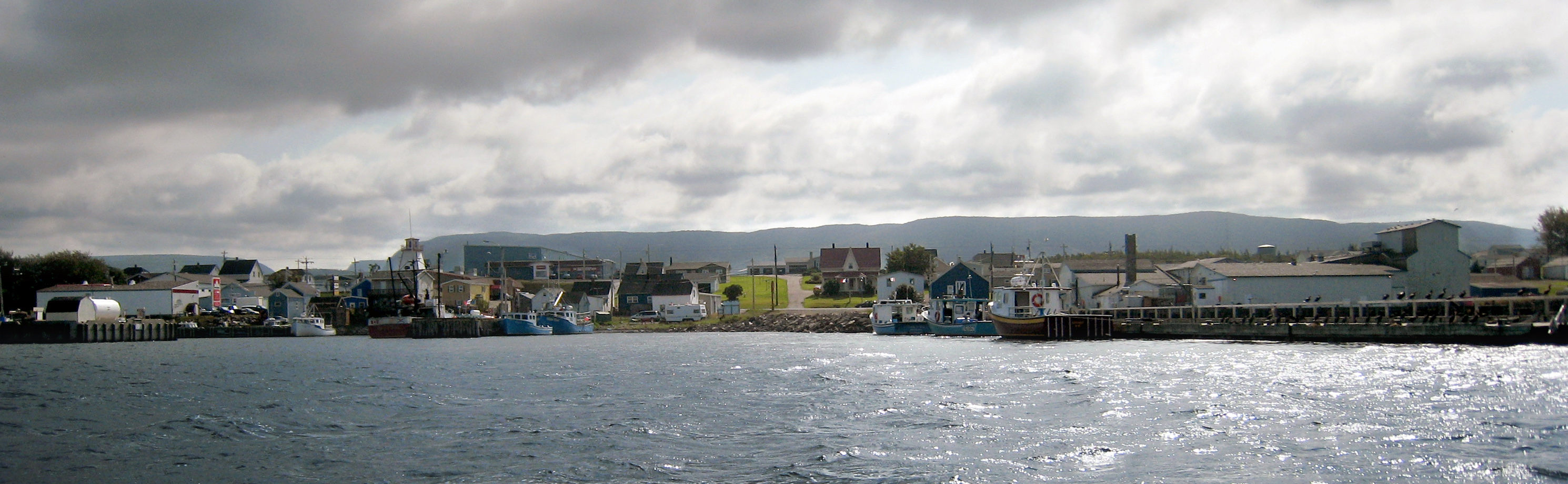 Whale watching out of Cheticamp.